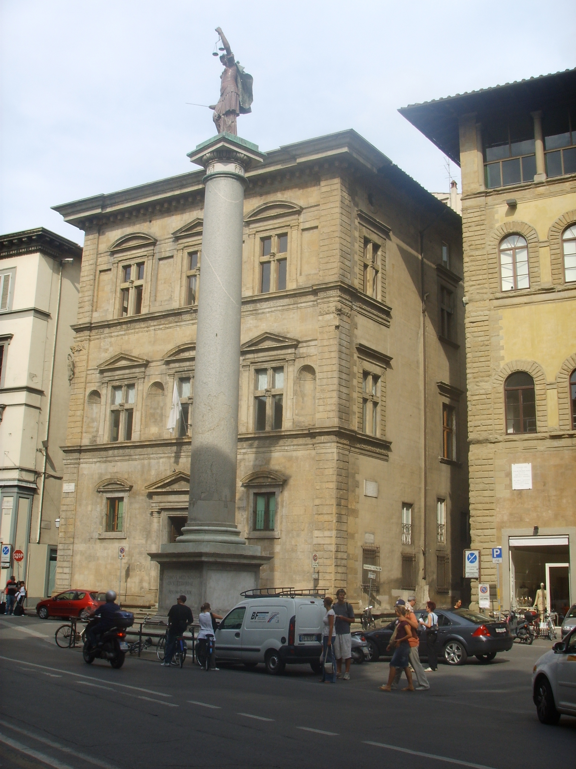 Lady Justice Column, in Santa Trinita Square in Florence, Italy.